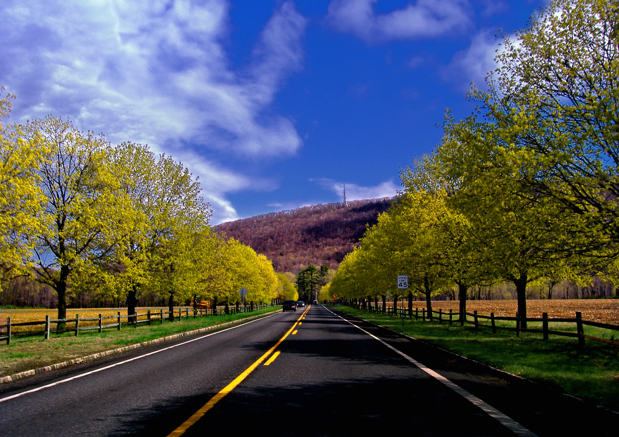 Saylorsburg?Wind Gap Road, Monroe County?Northampton County line. (Replaced with cropped version.)